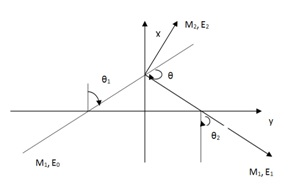 Planar representation